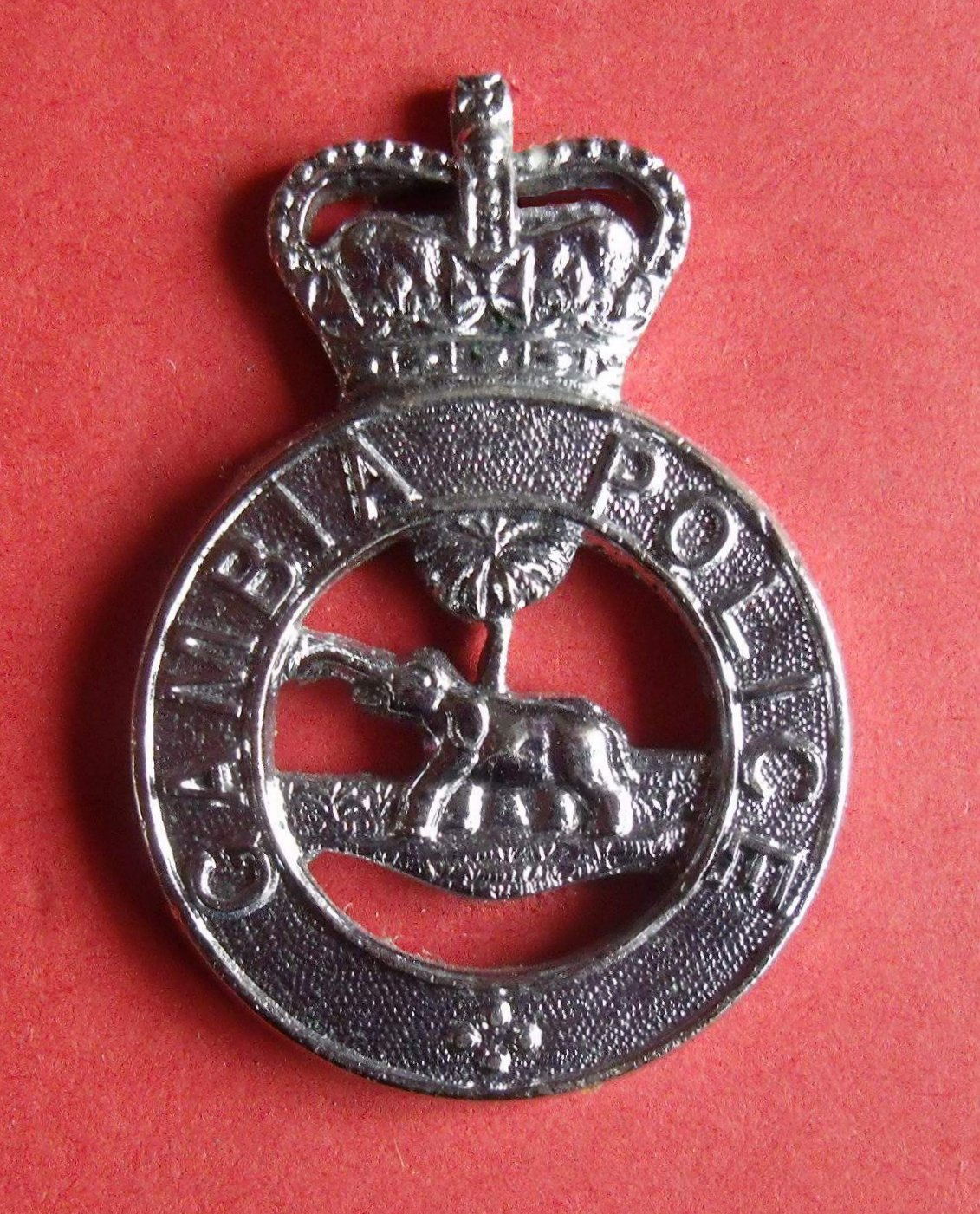 Part of my worldwide Law enforcement badge collection The Republic of The Gambia, also commonly known as Gambia, is a country in West Africa. Gambia is the smallest country on mainland Africa, surrounded by Senegal except for a short coastline on the Atlantic Ocean in the west. The country is situated around the Gambia River, the nation's namesake, which flows through the country's centre and empties into the Atlantic Ocean. Its area is 11,295 sq km with an estimated population of 1.7 million. On 18 February 1965, The Gambia gained independence from the United Kingdom and joined the Commonwealth of Nations